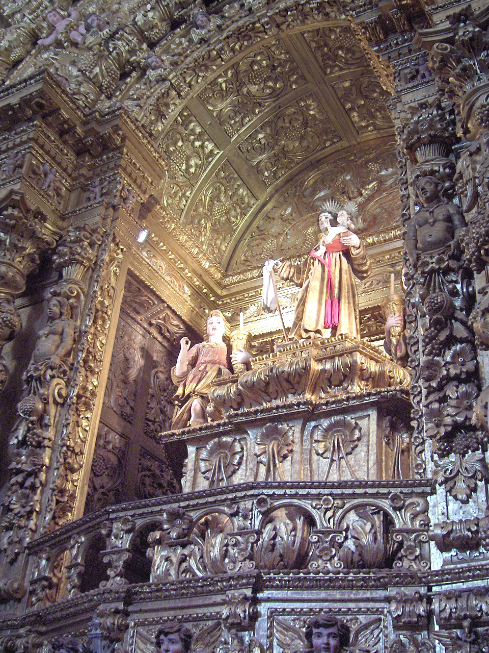 Statue of St. Anthony on the altar; Igreja de Santo António; Lagos, Portugal